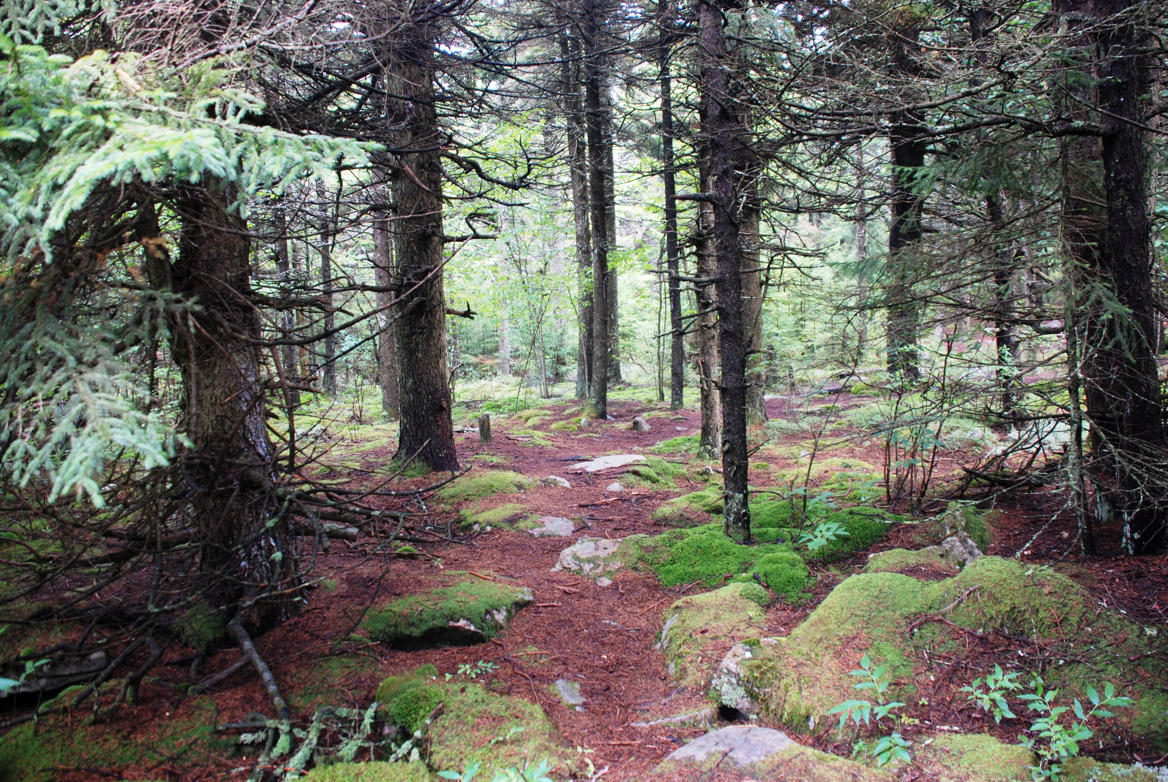 Forest of Picea rubens (Red Spruce) on top of Spruce Knob mountain in West Virginia, USA